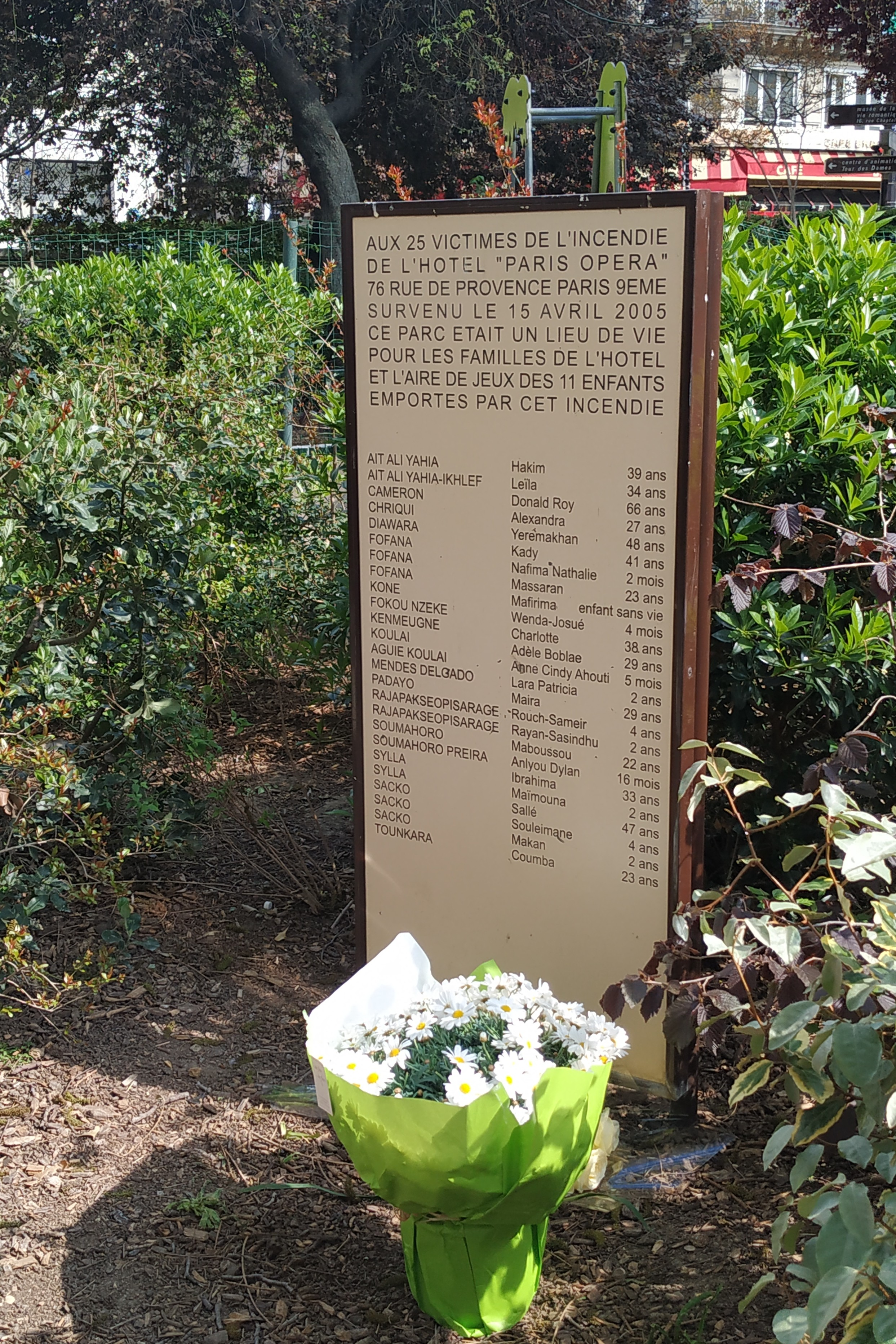 Commemorative plaque remembering the victims of the Hotel Opera fire